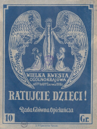 Main Welfare Council - ticket. Save children. Grand National Appeal. June 11-18, 1916